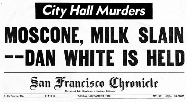 Upper part of the front page of the San Francisco Chronicle on November 28, 1978 - the morning after the double assassination of George Moscone and Harvey Milk.